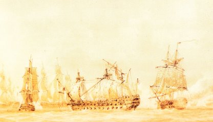 Capture of Ça Ira. From left to right: HMS Inconstant, Victoire (background), Ça Ira, HMS Agamemnon